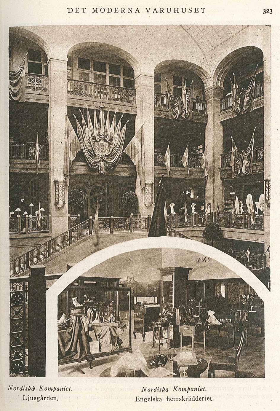 Two interiors (the courtyard and the department of men's tayloring) from the department store Nordiska Kompaniet (NK) in Stockholm. Photos published as examples in an article on "the modern department store".